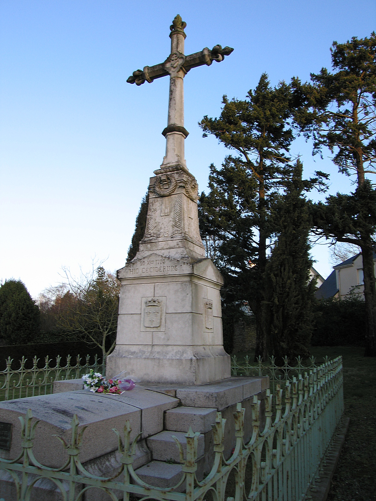 Cross of the vendéens, in Savenay, Loire-Atlantique. It commemorates the battle of Savenay.